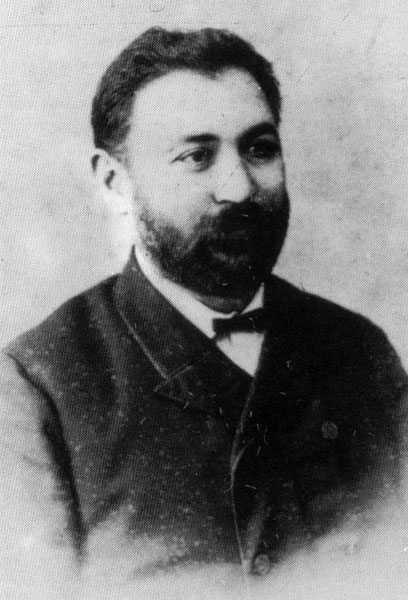 Matthaios Kofidis (1855-1921) Pontic Greek politician and businessman, Greek genocide victim.